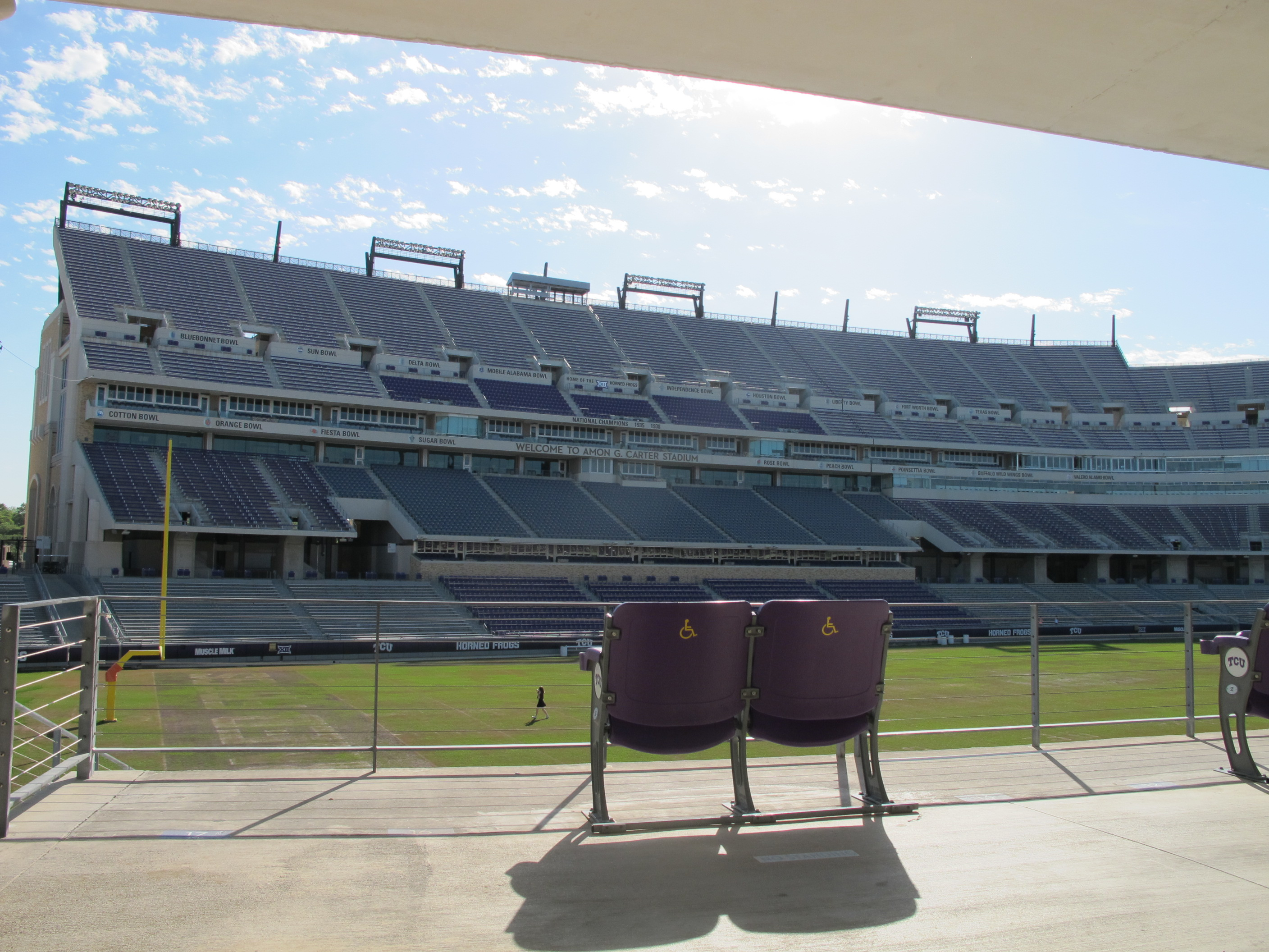 The Press Box Side of TCU's Amon Carter Stadium